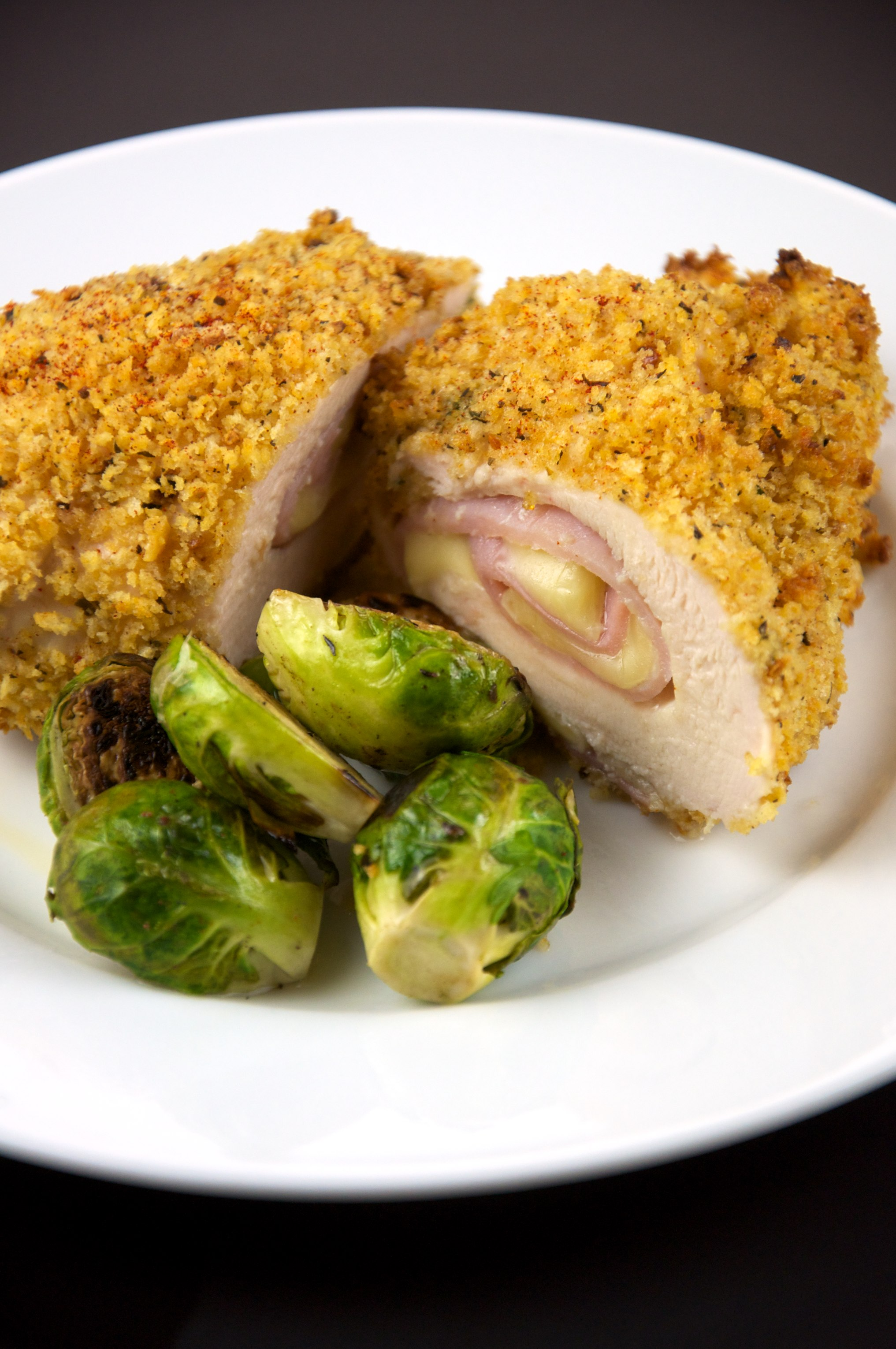 Chichen Cordon Bleu